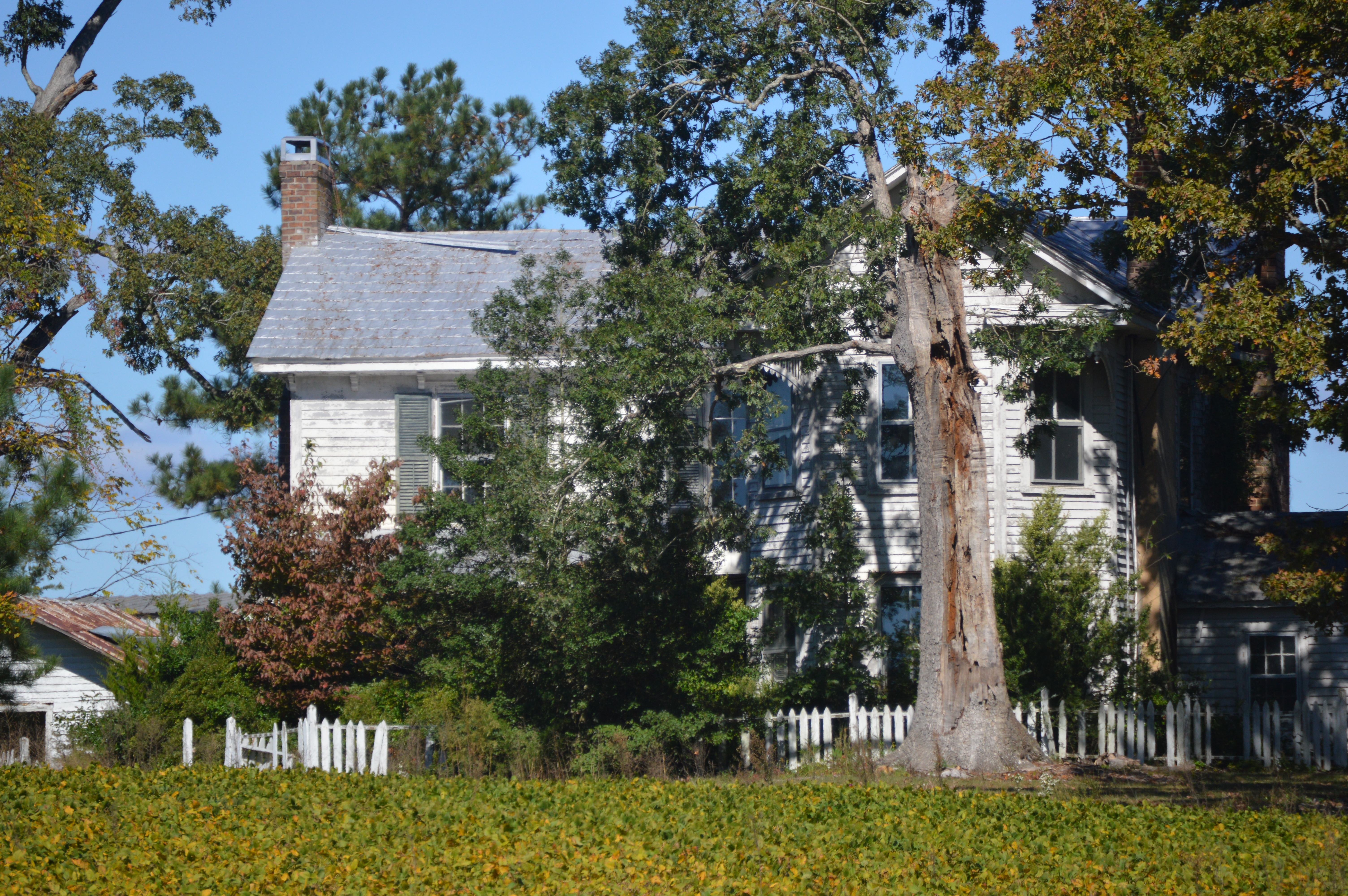 Front of the Henry-Vernon House, located on North Carolina Highway 49 southwest of Bushy Fork in Person County, North Carolina, United States. Built in 1896, it is listed on the National Register of Historic Places.